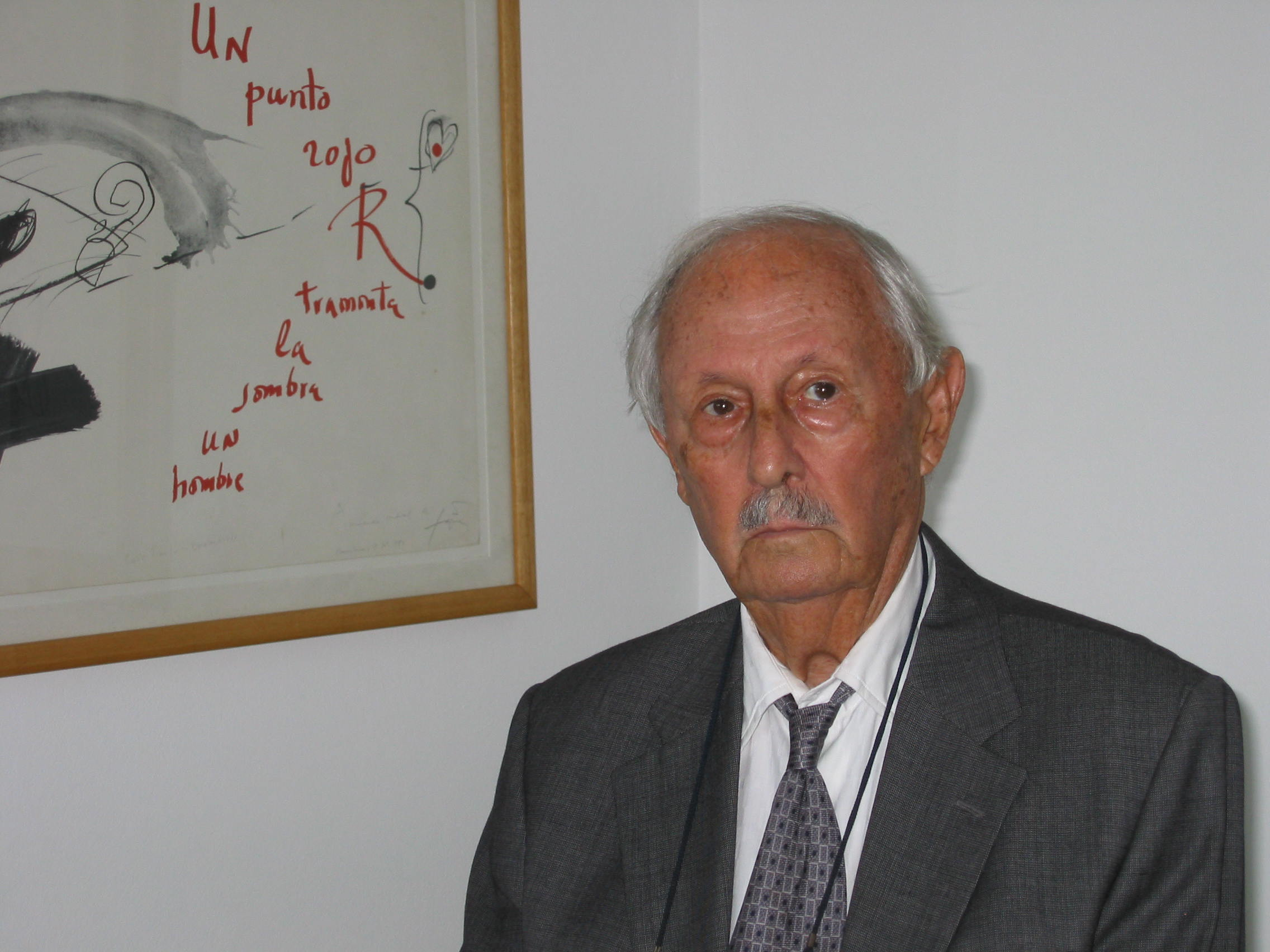 Carlos Franqui in front of a painting that includes one of his poems. Taken at his home in San Juan, Puerto Rico, September, 2006